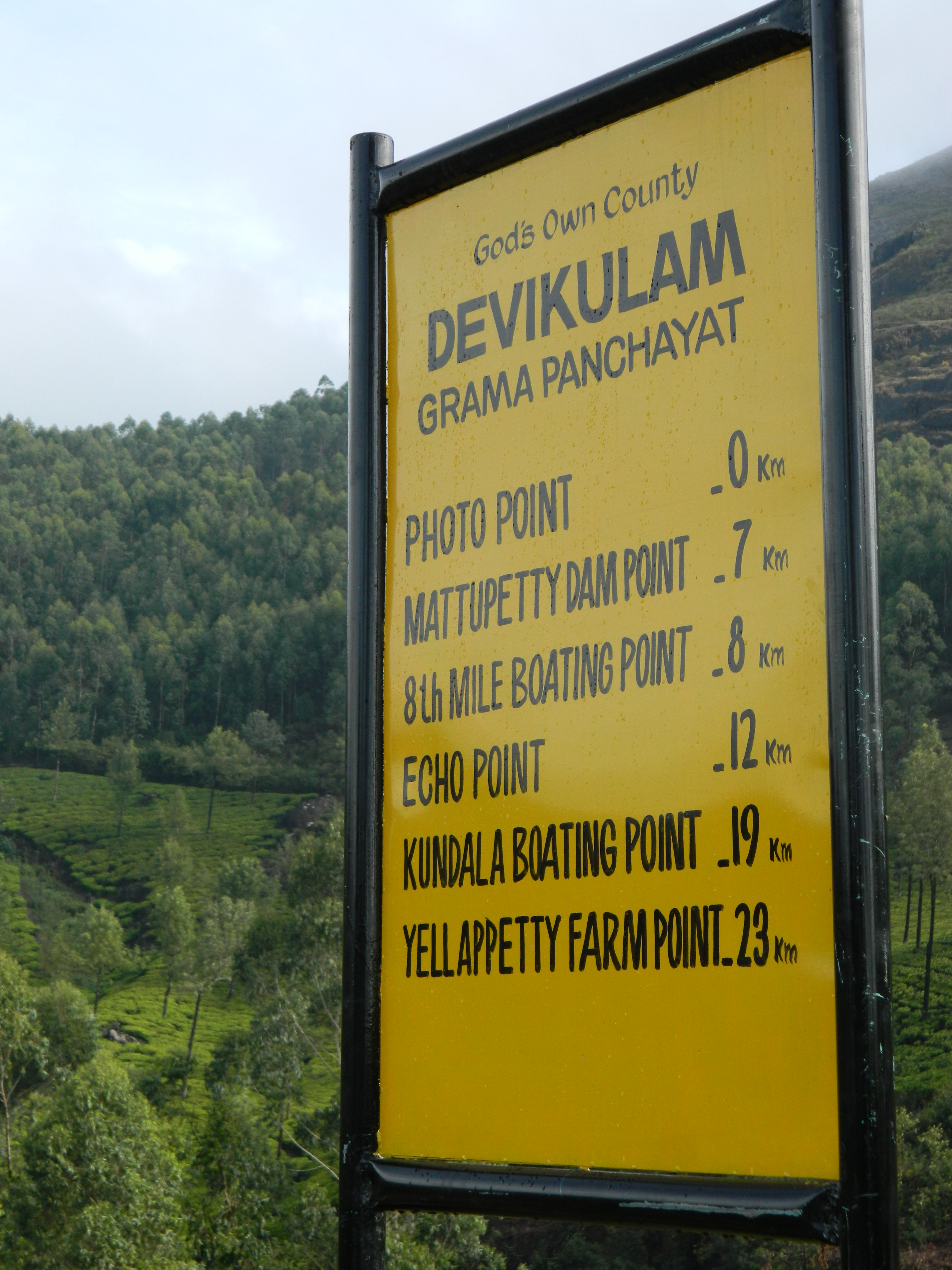 name board